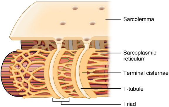 Version 8.25 from the Textbook OpenStax Anatomy and Physiology Published May 18, 2016